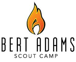 The current logo of the BSA Atlanta Area Council's Bert Adams Scout Reservation, located in Covington, Georgia, about an hour and a half away from downtown Atlanta. The logo is often used interchangeably at the camp with the older version of the logo.